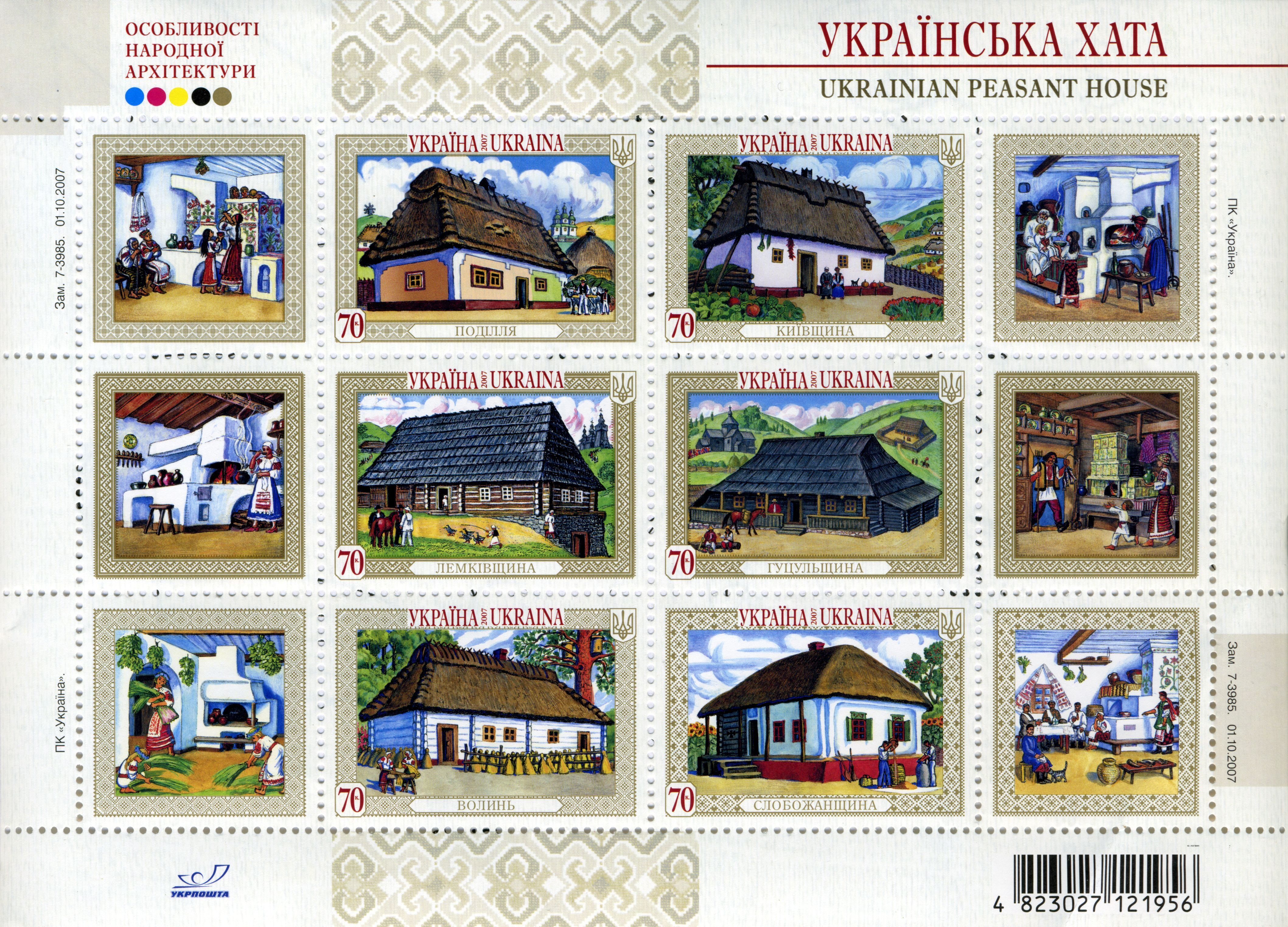 UkrPoshta stamp block imaging the Ukrainian khatas diversity by region.